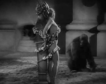 Screenshot from the film Sign of the Cross (1932) of the sacrifice in the Colosseum.